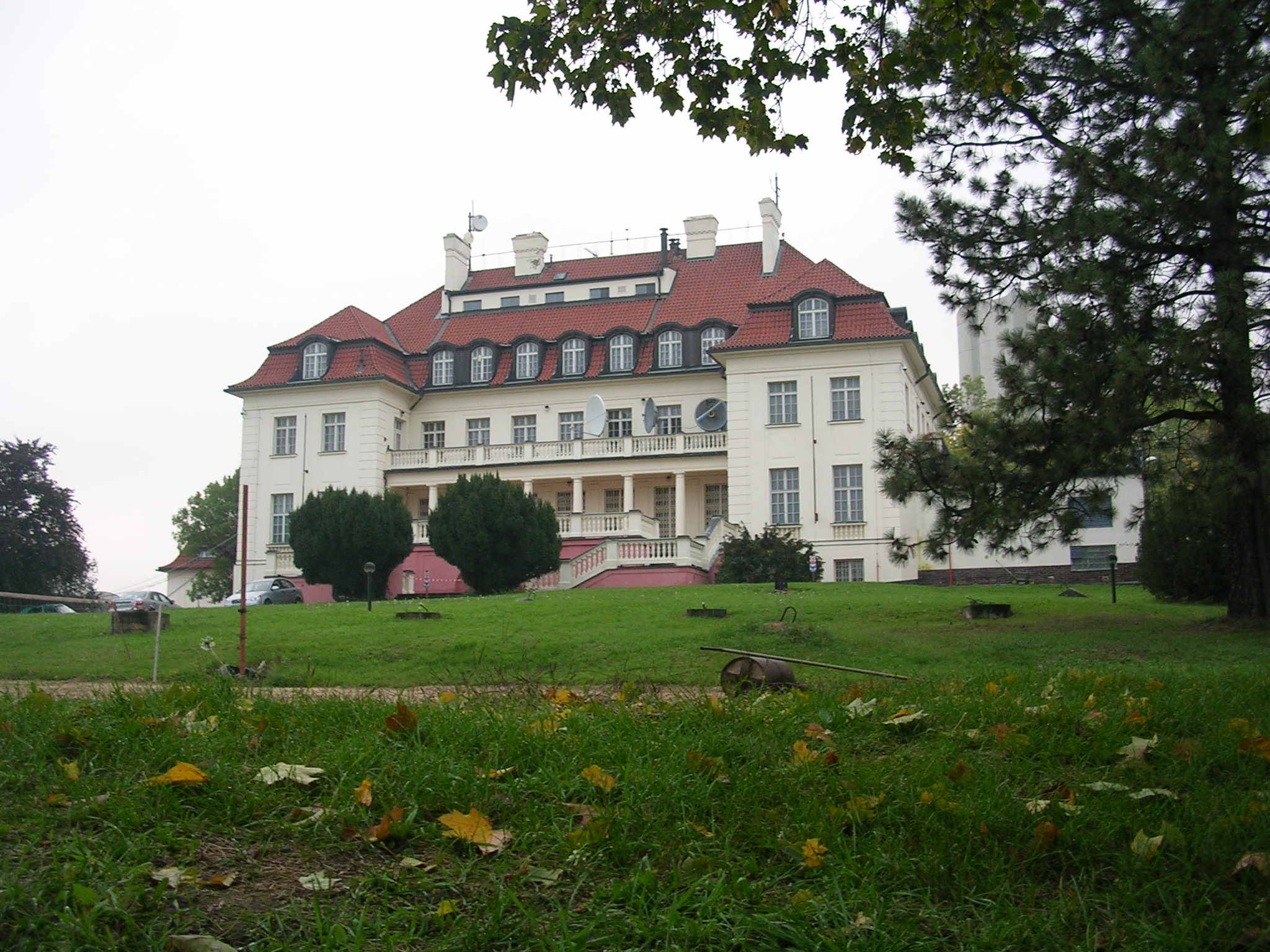 Prague-Smíchov, the Czech Republic. Na Pavím vrchu 1949/2, IT department of the Czech civilian intelligence (or of the Ministry of the Interior, according to the sign plaque).